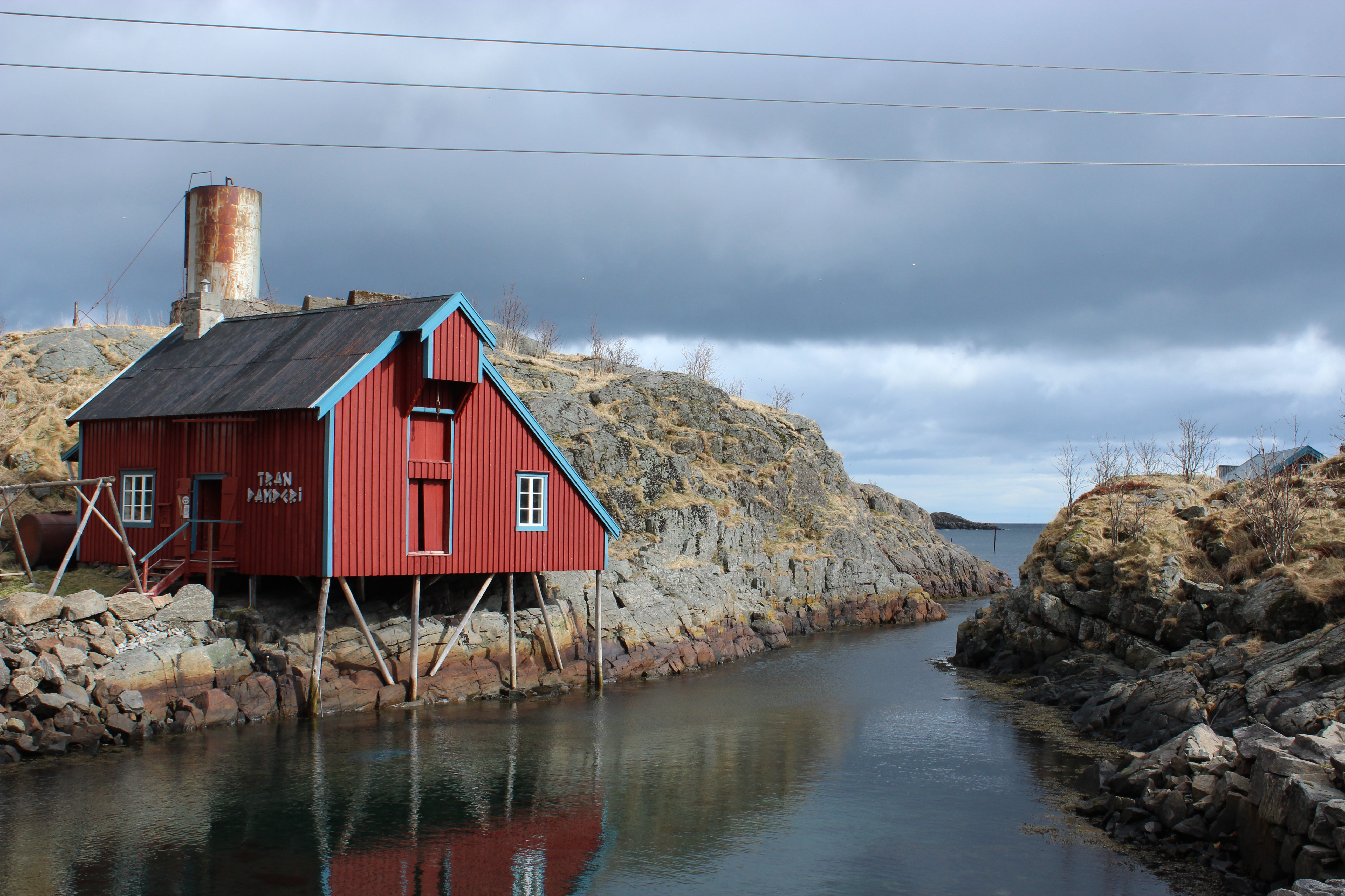 Facility for production of cod liver oil at Norsk Fiskeværsmuseum